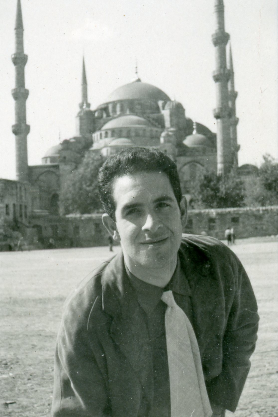 Photograph of Italian Artist Bruno Caruso on his honeymoon in Istanbul